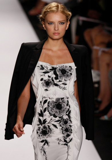 Lily Donaldson in the Carolina Herrera Spring 2009 fashion show